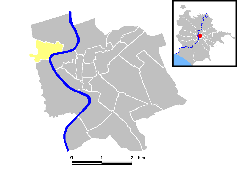 Locator maps of Rome (rioni)